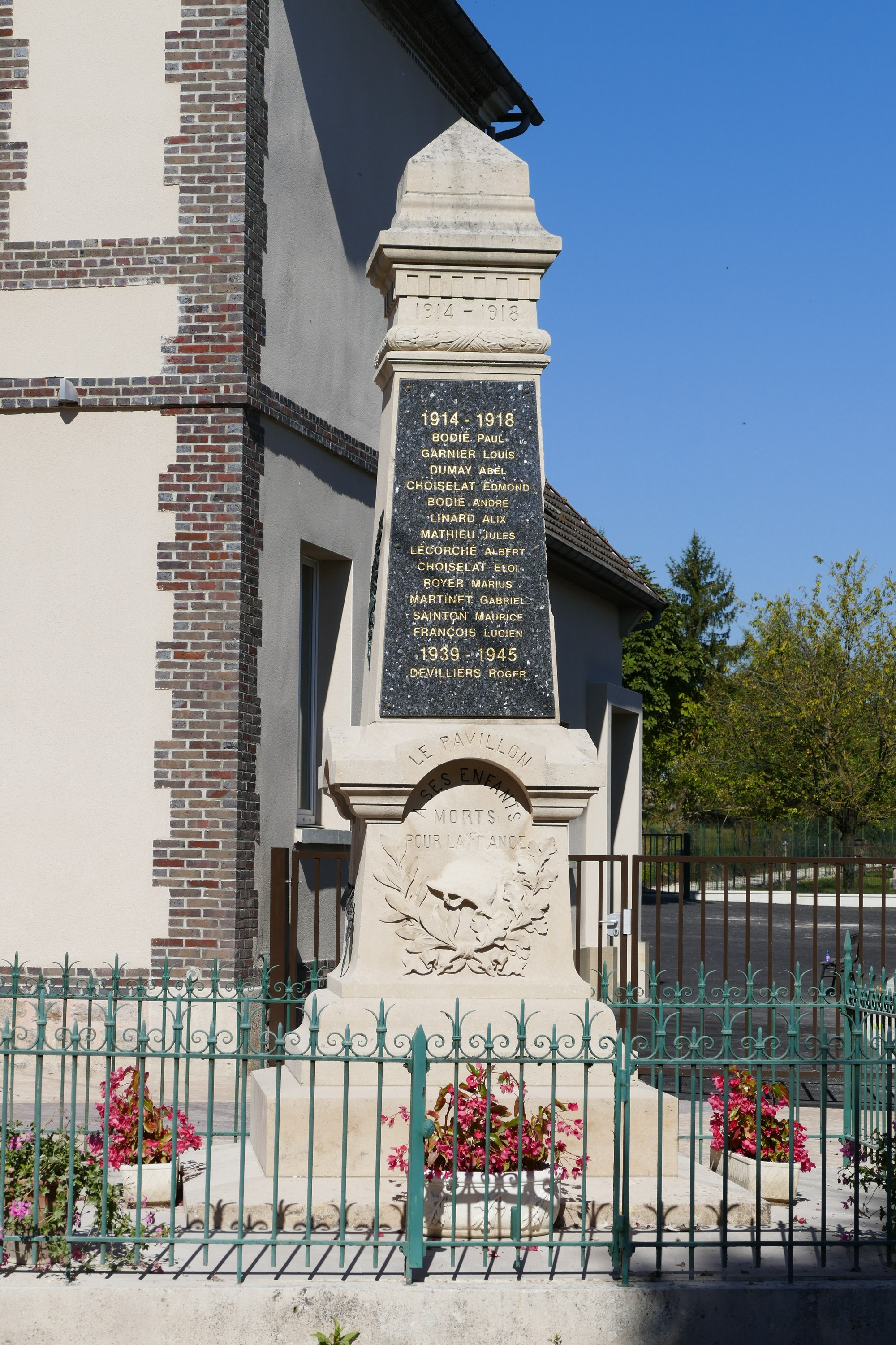 War memorial in Le Pavillon-Sainte-Julie (Aube, Champagne-Ardenne, France).